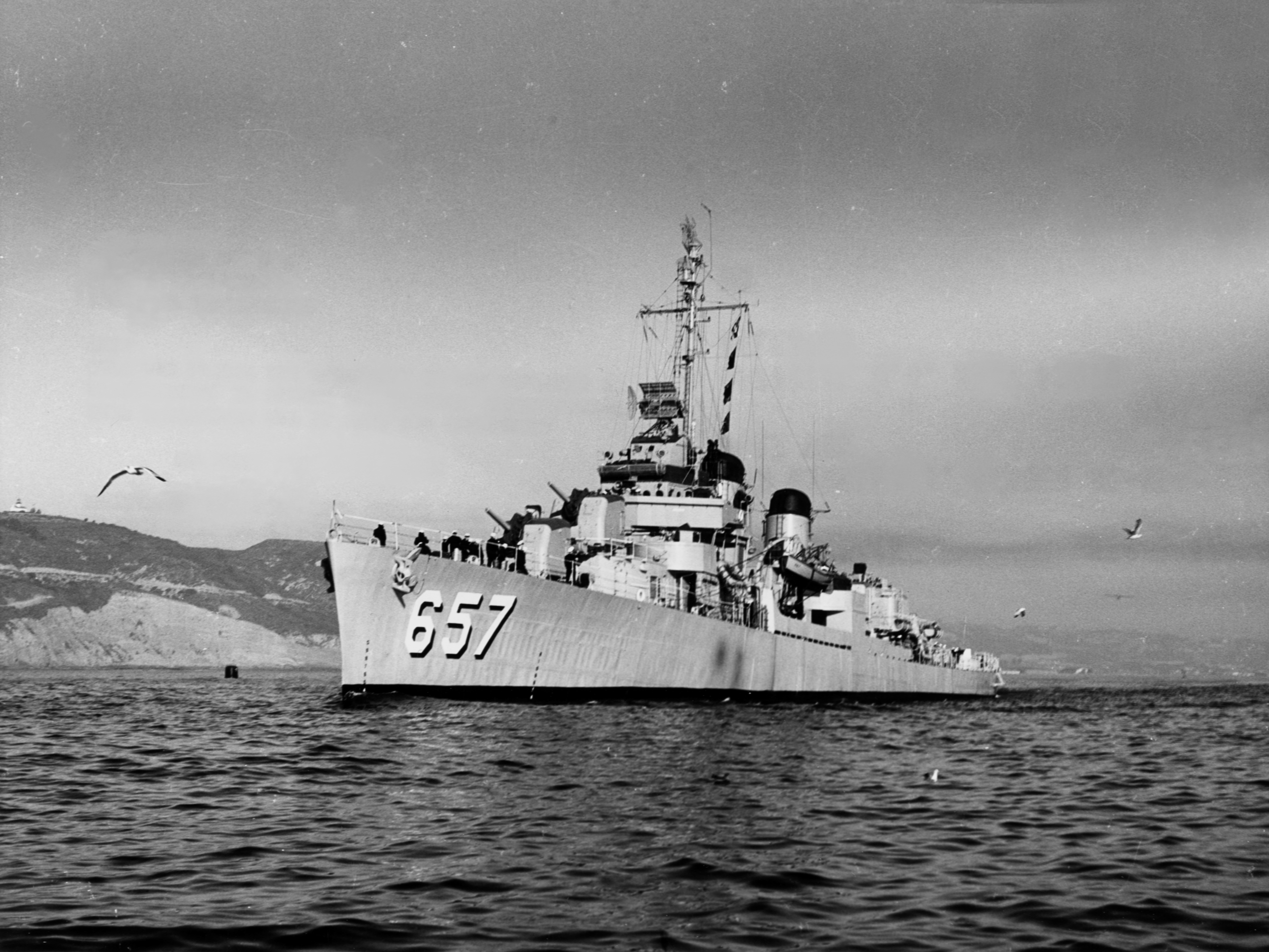 The U.S. Navy destroyer USS Charles J. Badger (DD-657) underway while leaving port, probably when recommissioned in 1951. The ship still has World War II era radar antennas.